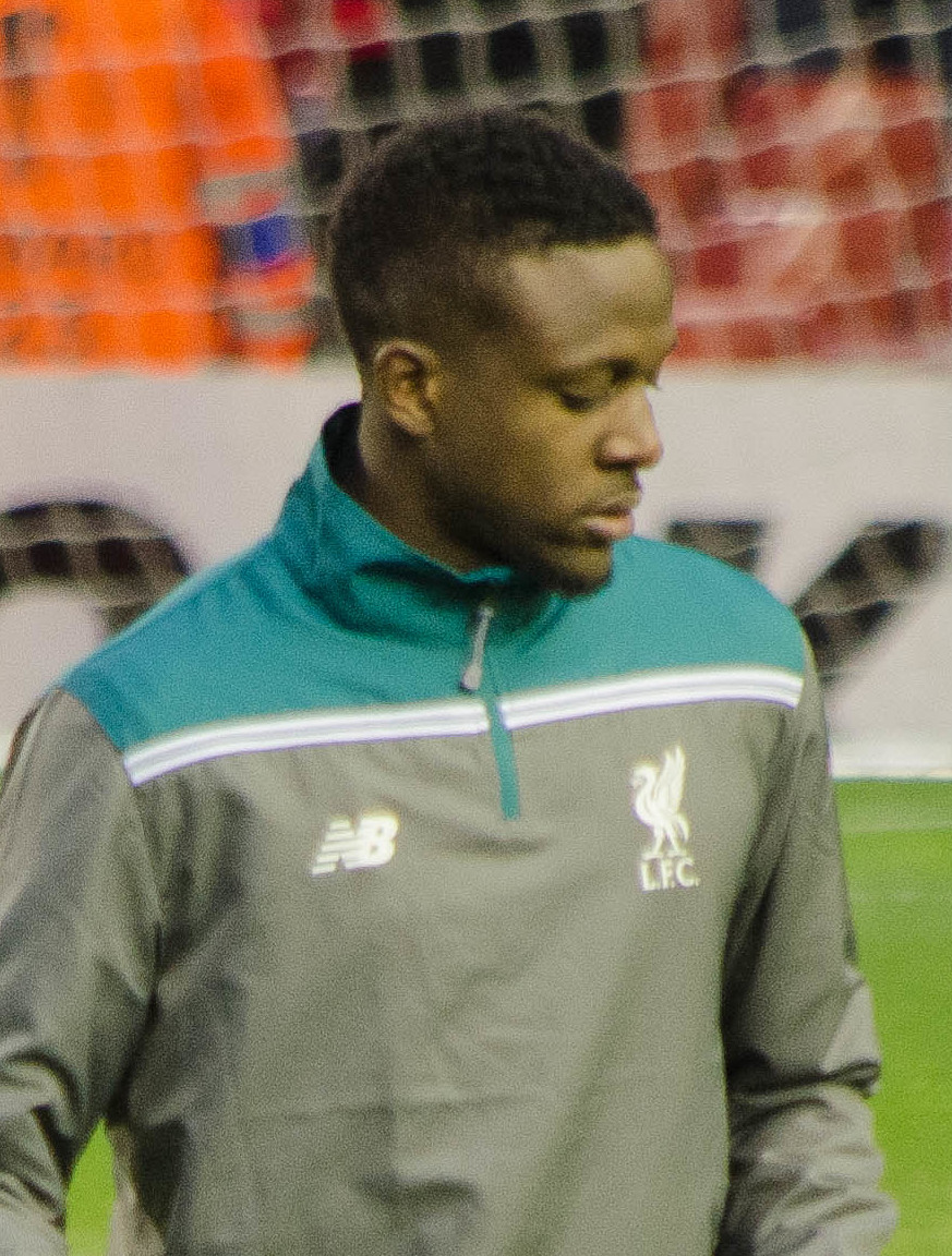 Divock Origi warming-up for Liverpool FC before Europa League clash against FC Augsburg on 25 February 2016.